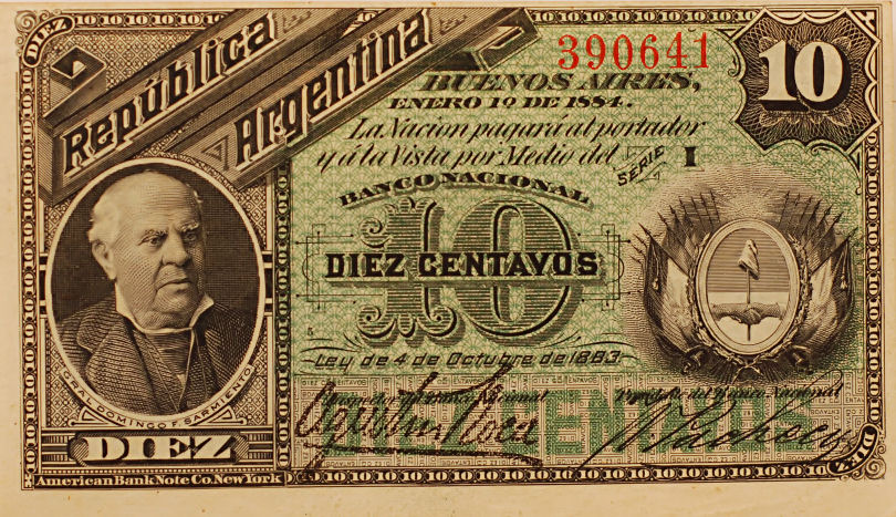 A 10 cents banknote with a portrait of Domingo F. Sarmiento.